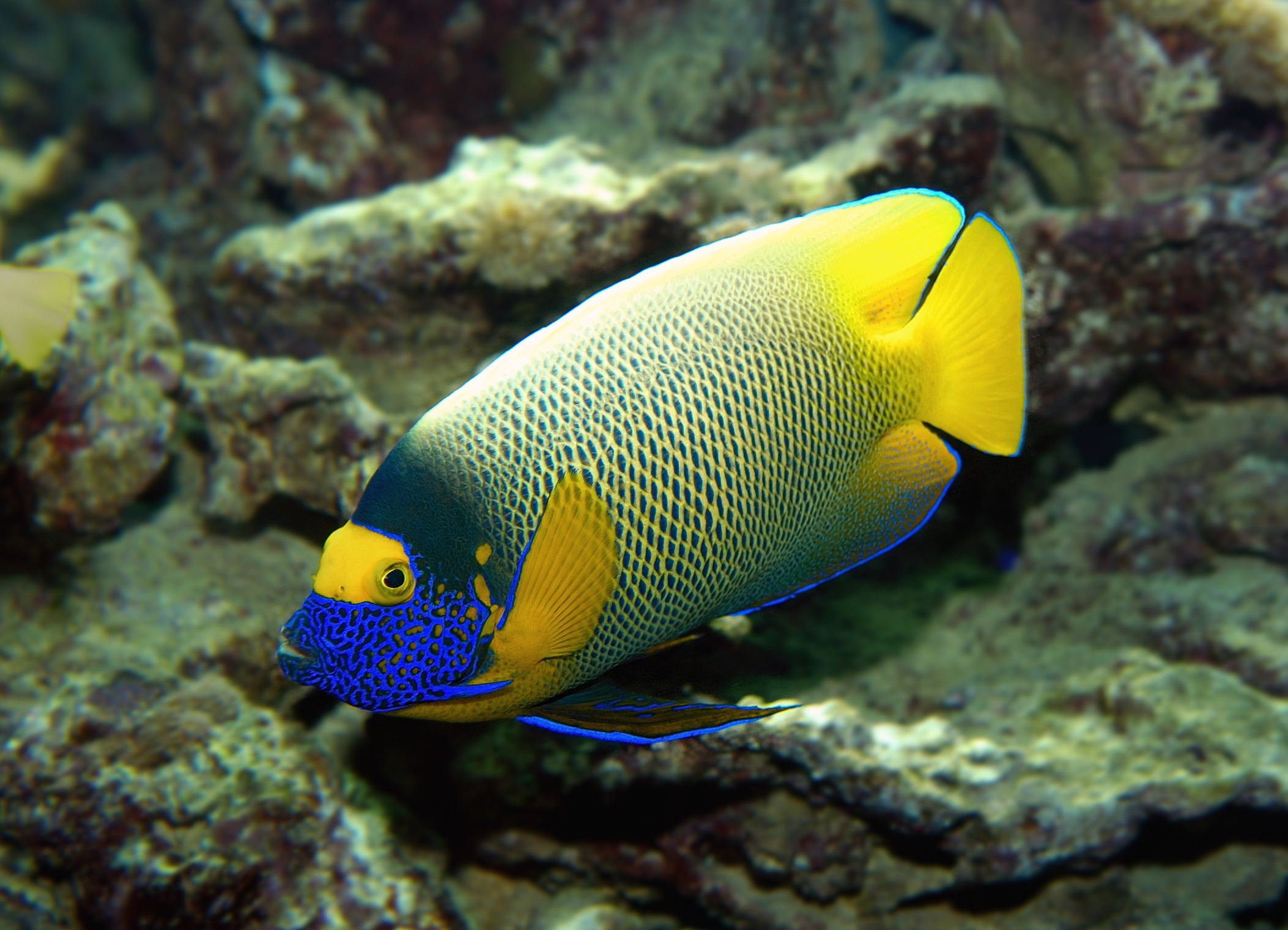 Austria, Vienna, Tiergarten Schönbrunn